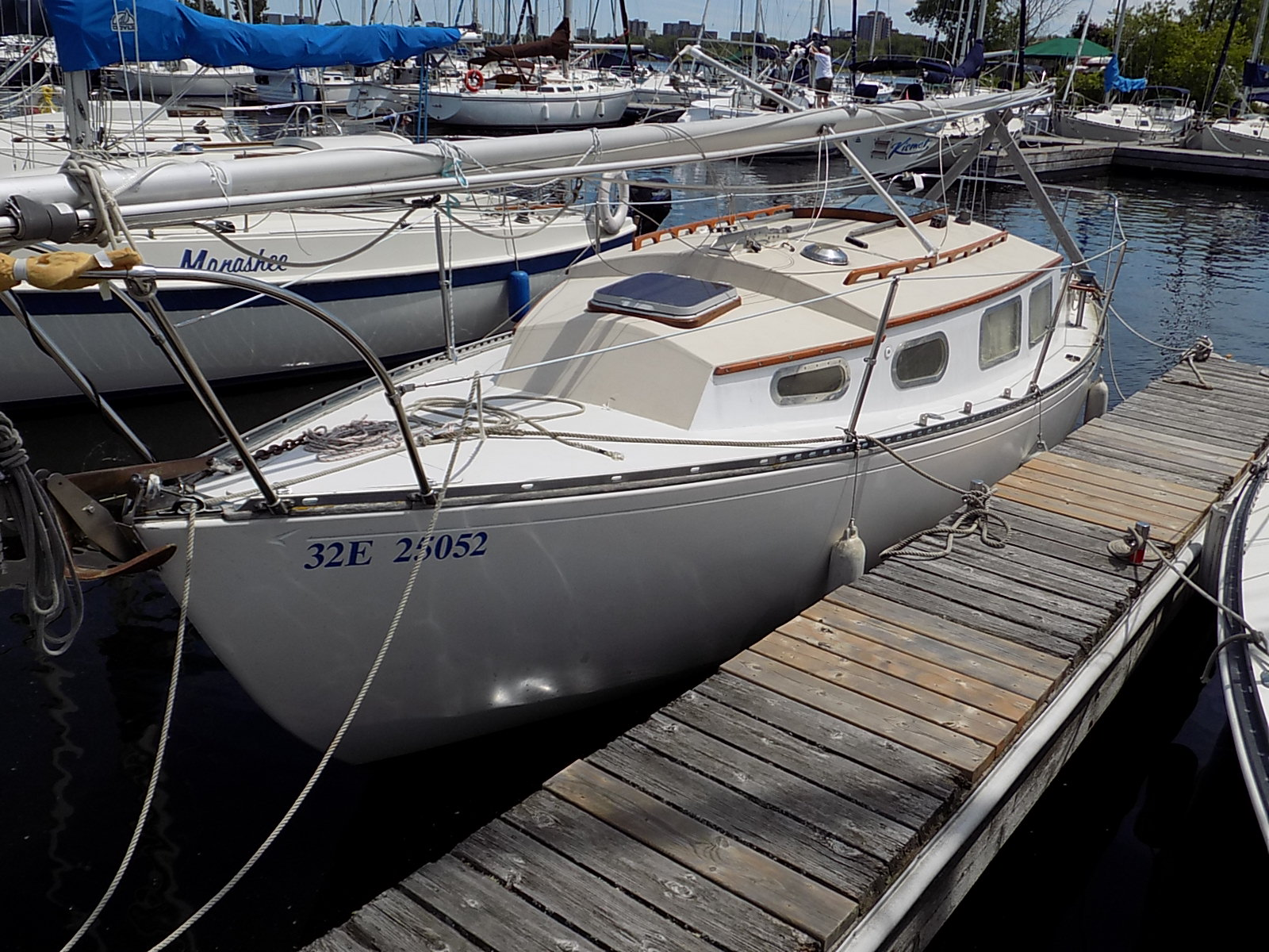 A Grampian 26 sailboat named Jessie J.